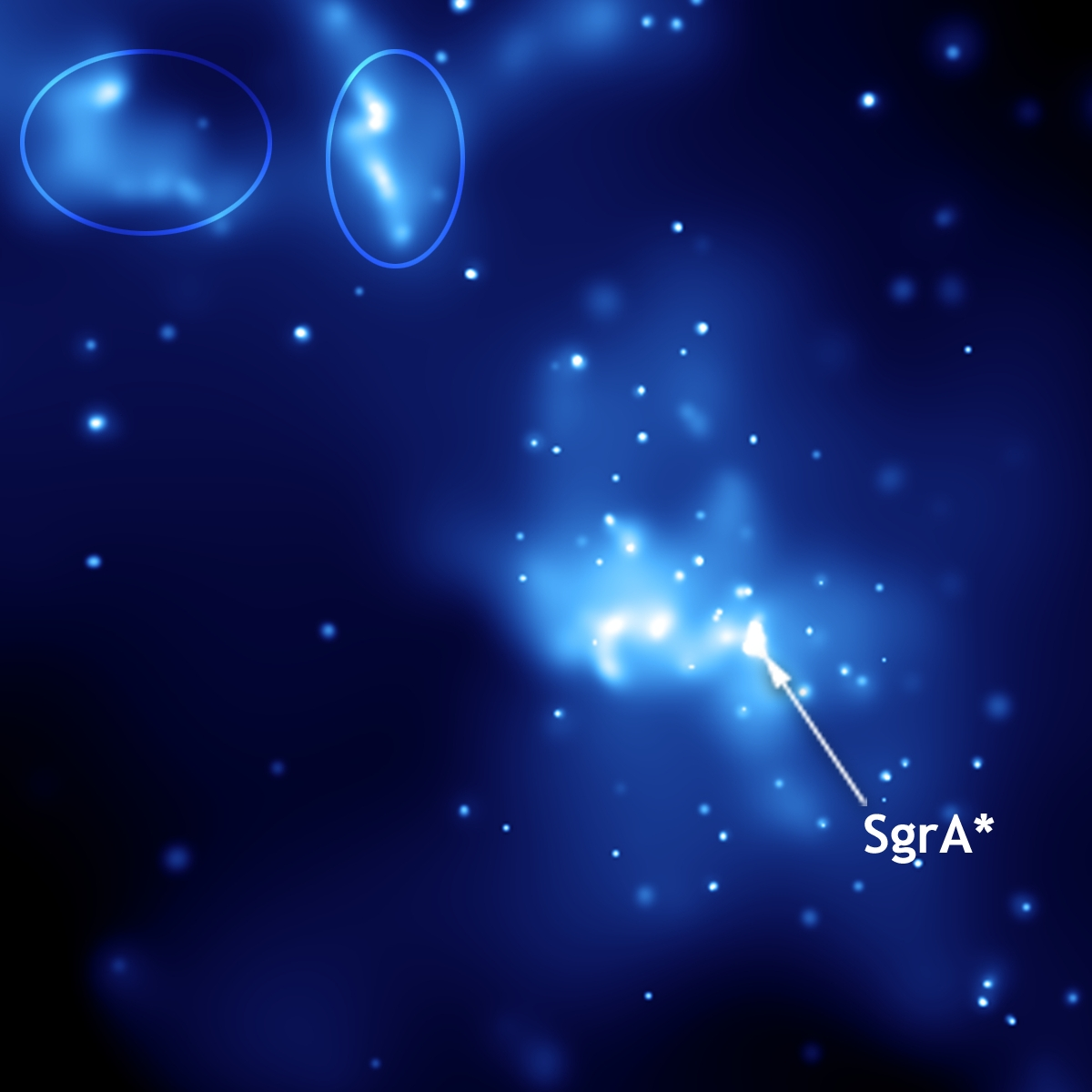 Sagittarius A*. This image was taken with NASA's Chandra X-Ray Observatory. Ellipses indicate light echoes. Full-field is 12.5 arcmin across. original source